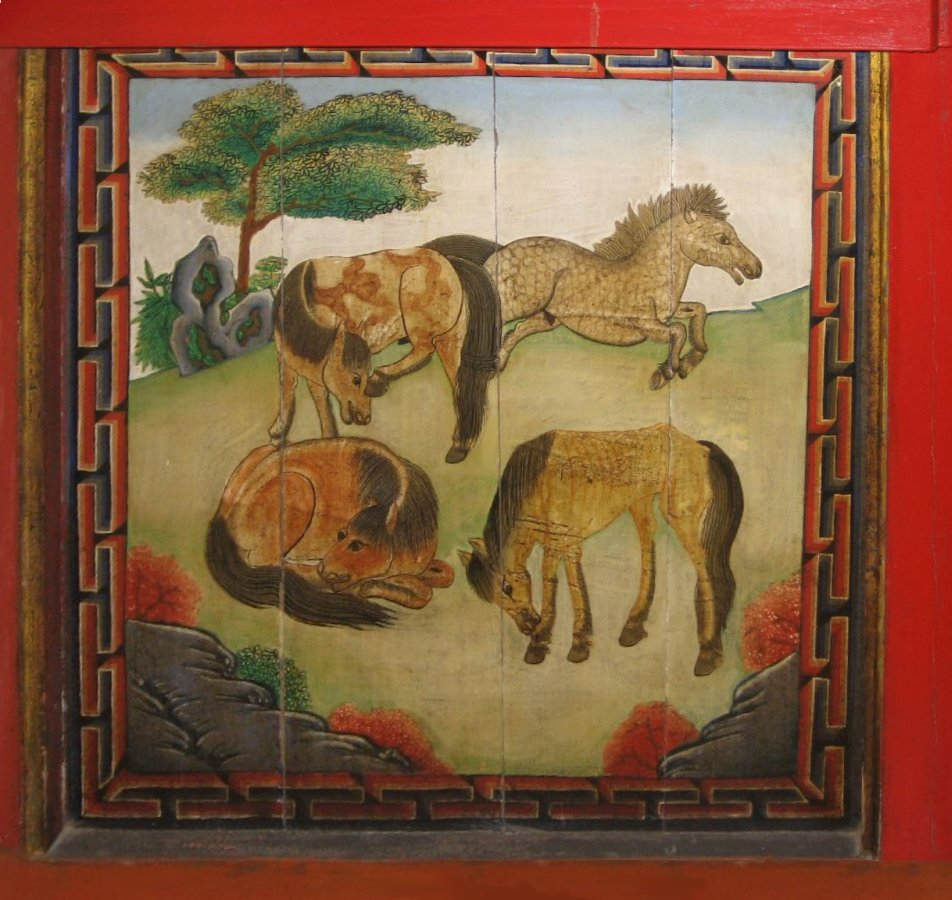 This struck me as a nice representation of Mongolian horses integrated into Buddhist art.